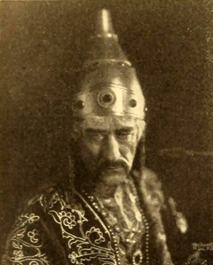 From an article in The Moving Picture World with Edwin Stevens in the American film serial The Yellow Menace (1916).